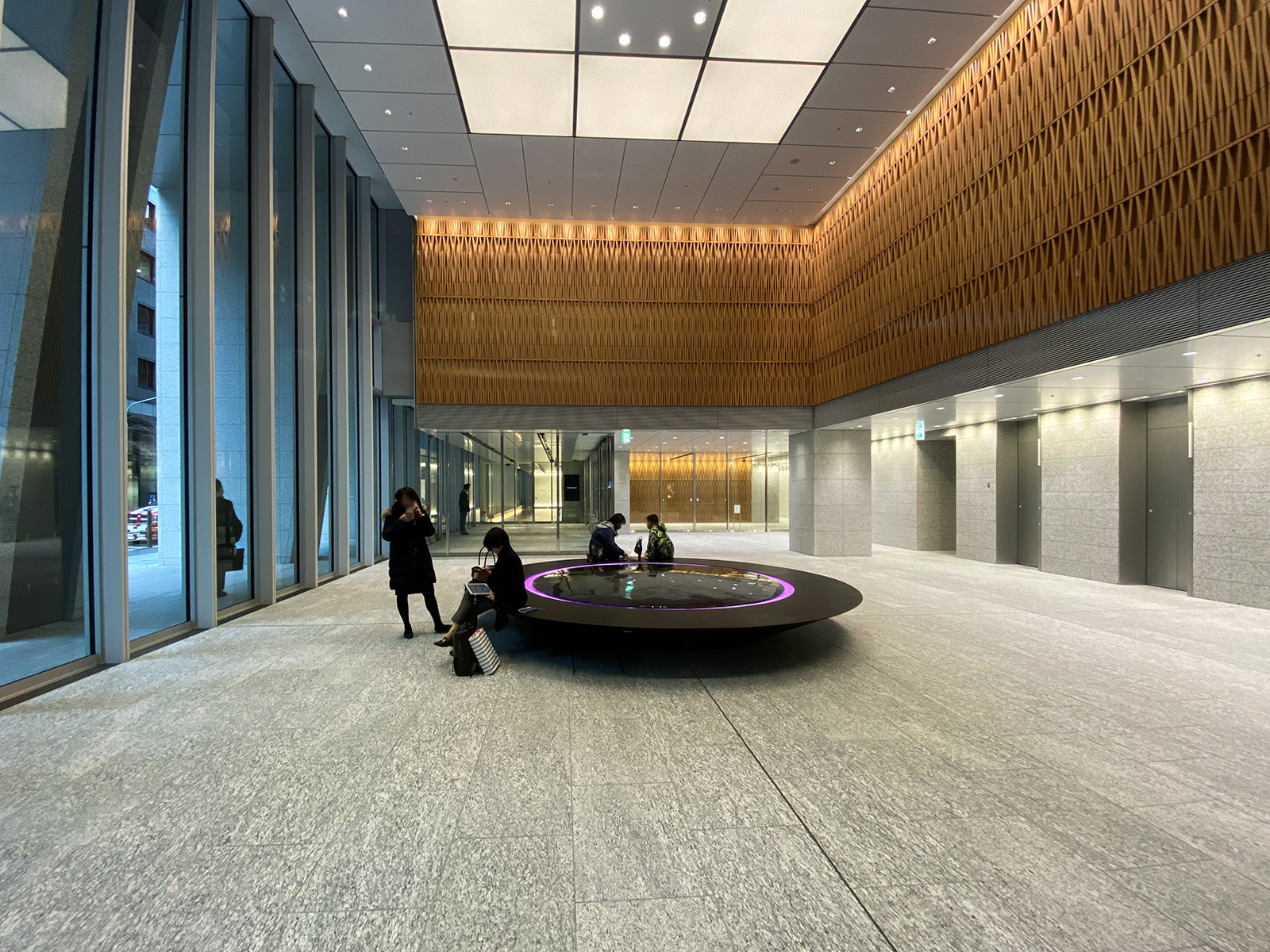 Takeda global headquarters lobby